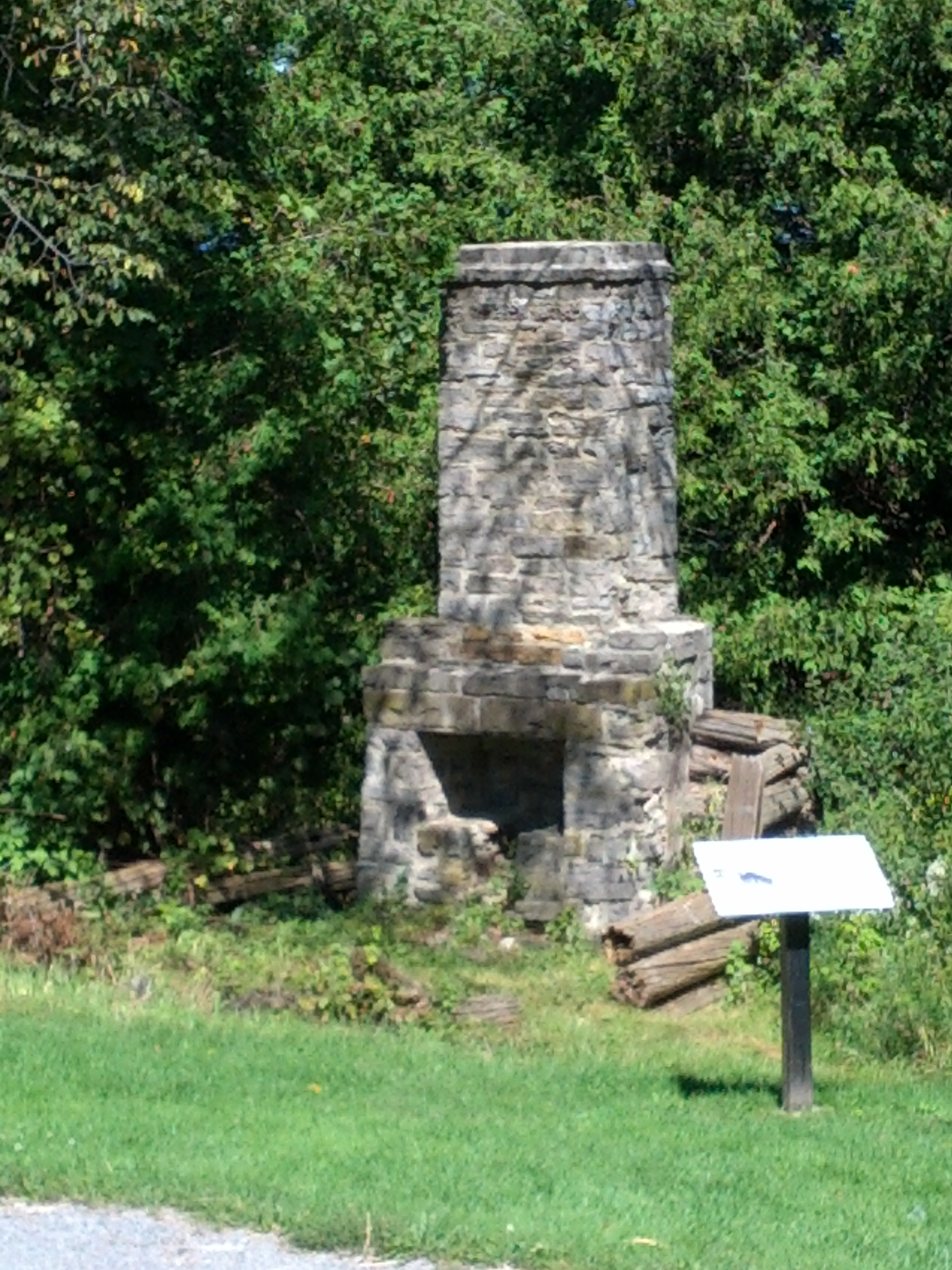 Outbuilding, Pinhey Homestead, erected c. 1825, March Township, Carleton County, Ontario. June 8, 1925. Now in the Kanata community of Ottawa, Ontario, Canada. photo taken September 1, 2014.